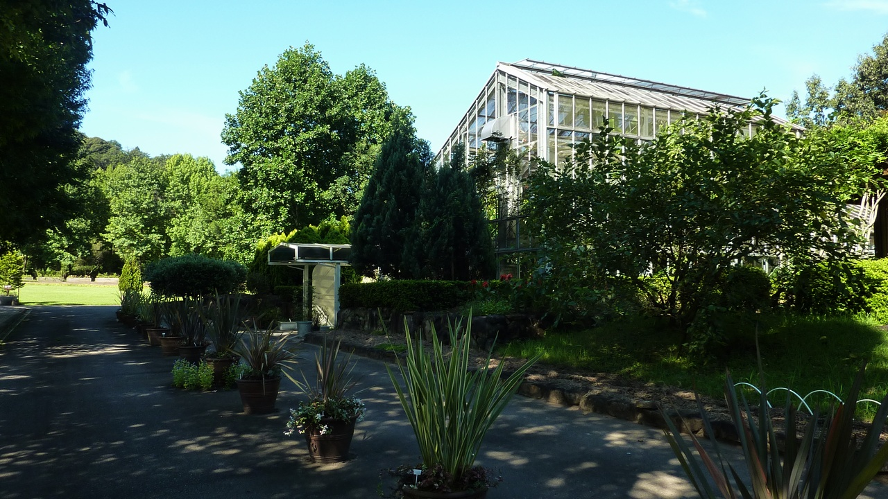 Nobeoka Botanical Garden